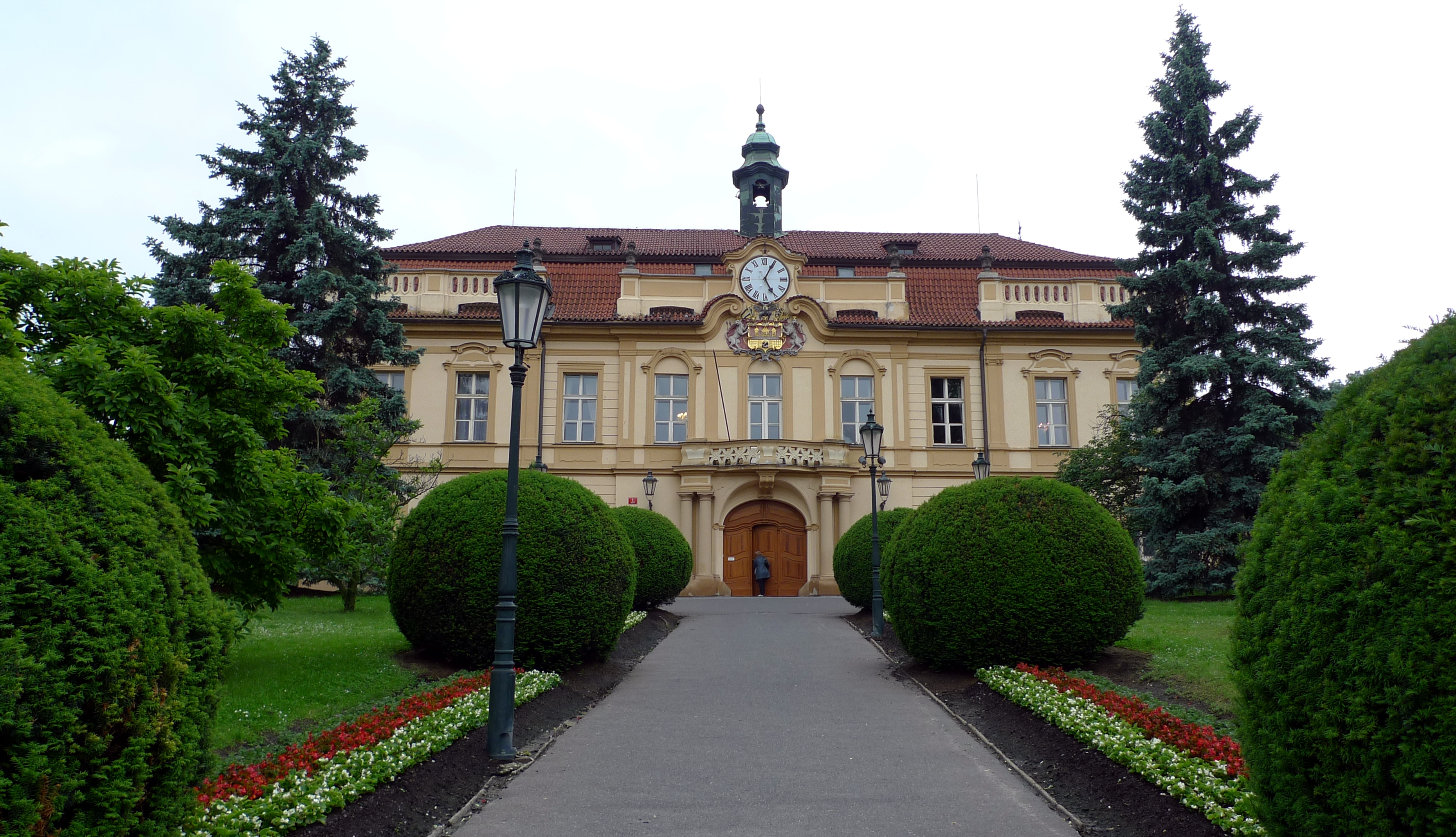 Castle of Libeň, Prague, Czech Republic